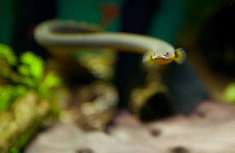 Reedfish